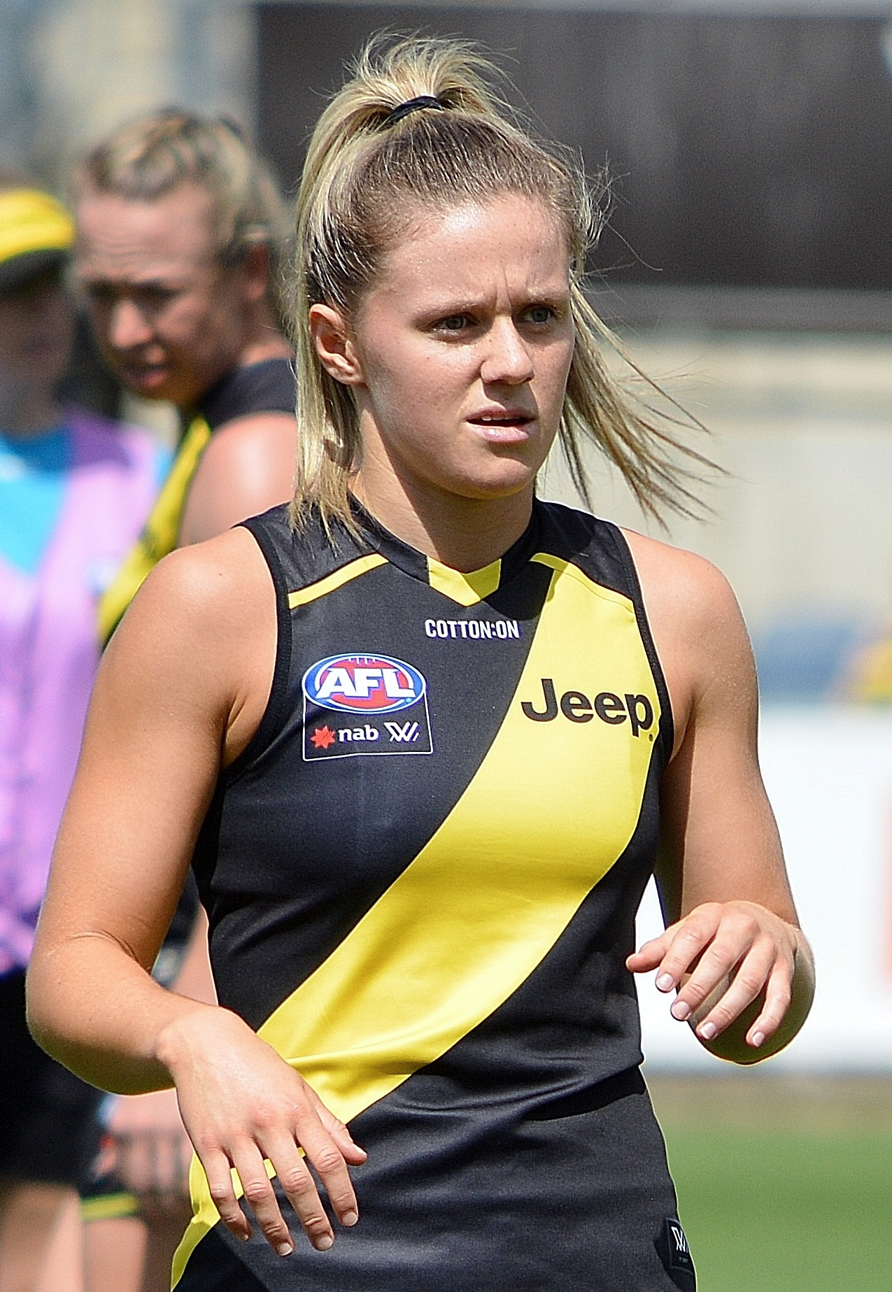 Maddy Brancatisano with Richmond during the round 3, 2020 AFL Women's match against North Melbourne at Ikon Park.